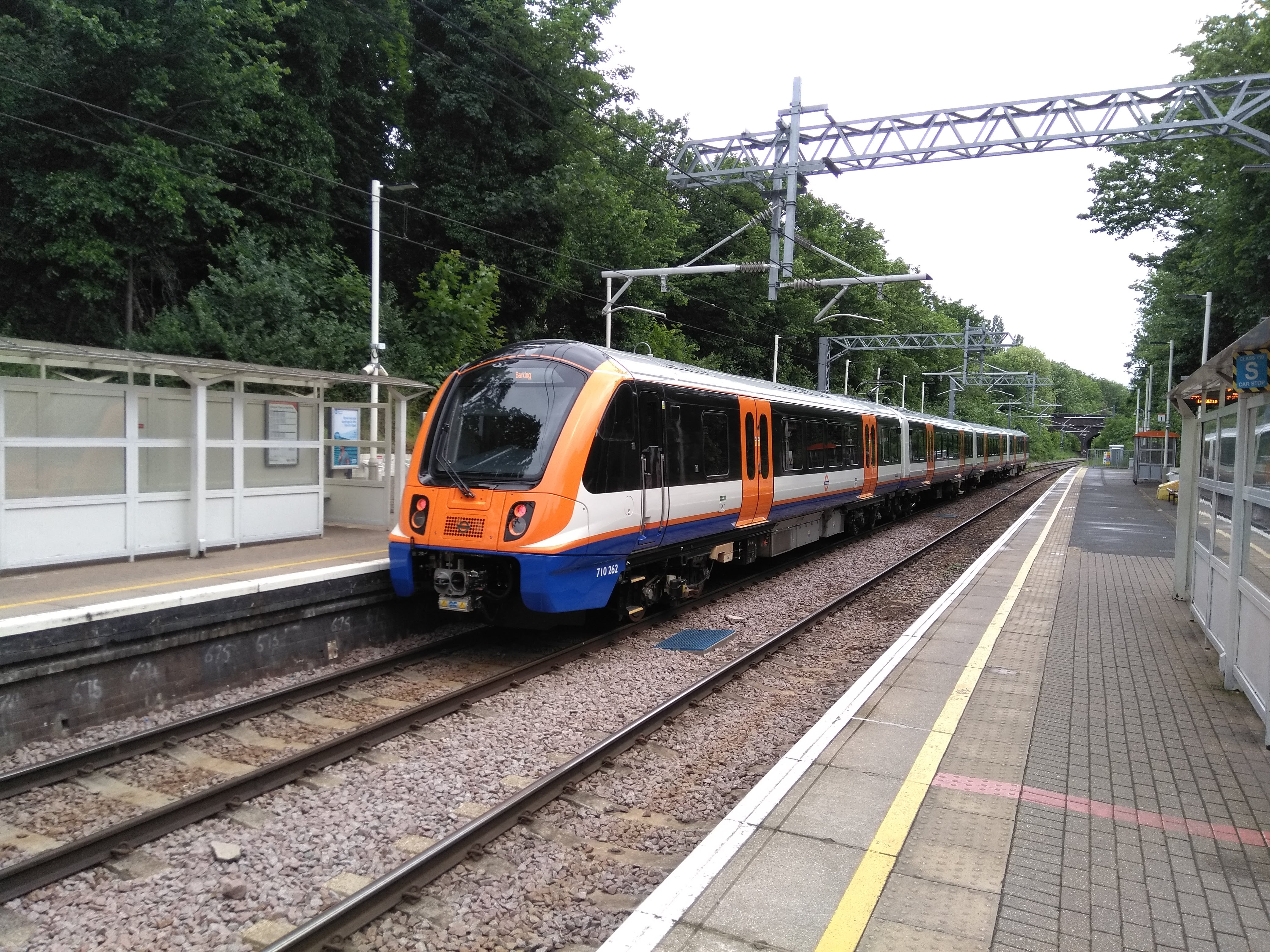 London Overground Unit 710262 departing Crouch Hill station